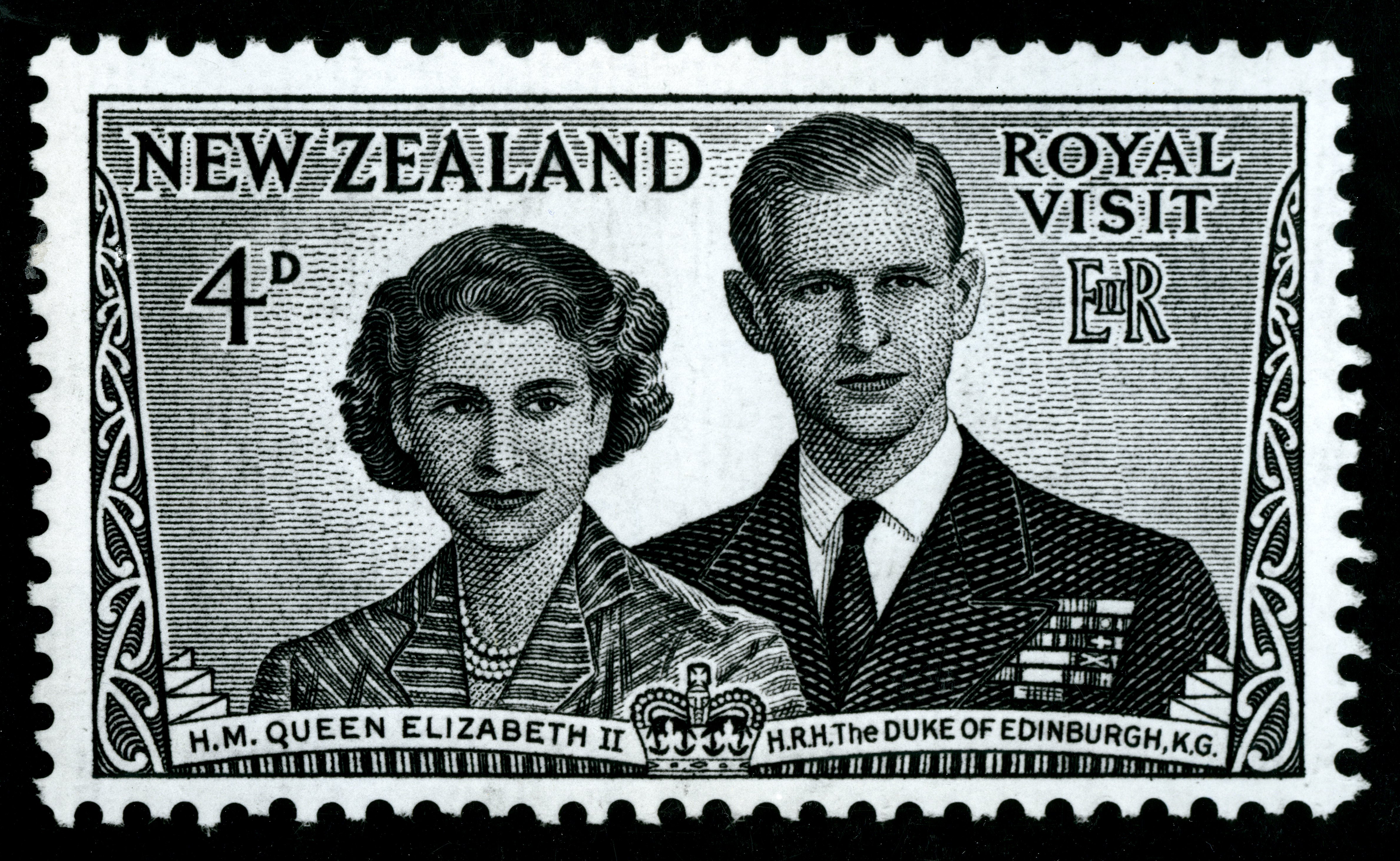 On 12 January 1954, Queen Elizabeth II opened a special session of New Zealand's Parliament. As well as being the first time New Zealand's Parliament had been opened by a reigning monarch, it also marked the centennial of its existence. According to .nz, a crowd of 50,000 greeted the Queen for the event. Indeed, since arriving in New Zealand in December 1953, thousands had turned out to see her and her husband, Prince Philip, at various places around the country. "At Tīrau, a community of 600 people in south Waikato, a crowd of 10,000 turned up for a glimpse of the young monarch," notes .nz. To mark the royal occasion, the Post and Telegraph Department released a special postage stamp of the visiting monarchs. As well as depicting a youthful Elizabeth and Philip, the stamp is also interesting for its border design. This is a photograph of the original stamp from the 'Former Post and Telegraph/Telecom Museum Holdings' (Series 8106). Also reproduced in the series is a swag of other stamps from the nineteenth and twentieth centuries. Archives Reference: AAME W5603 8106 Box 101 9/12/156 For updates on our On This Day series and news from Archives New Zealand, follow us on Twitter Material from Archives New Zealand